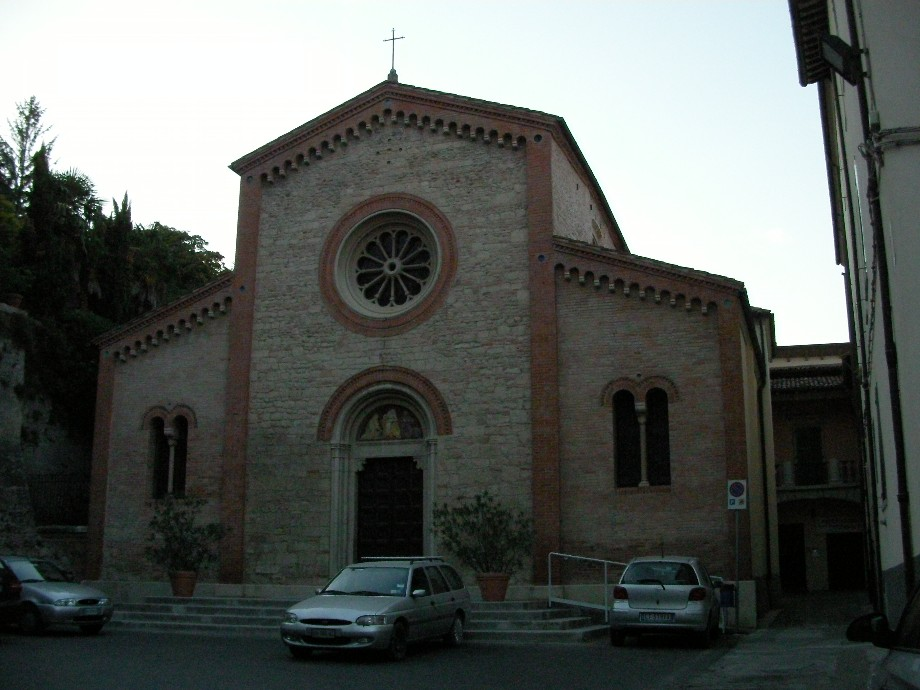 Façade of the church of St. Nicolò and Francesco in Castrocaro